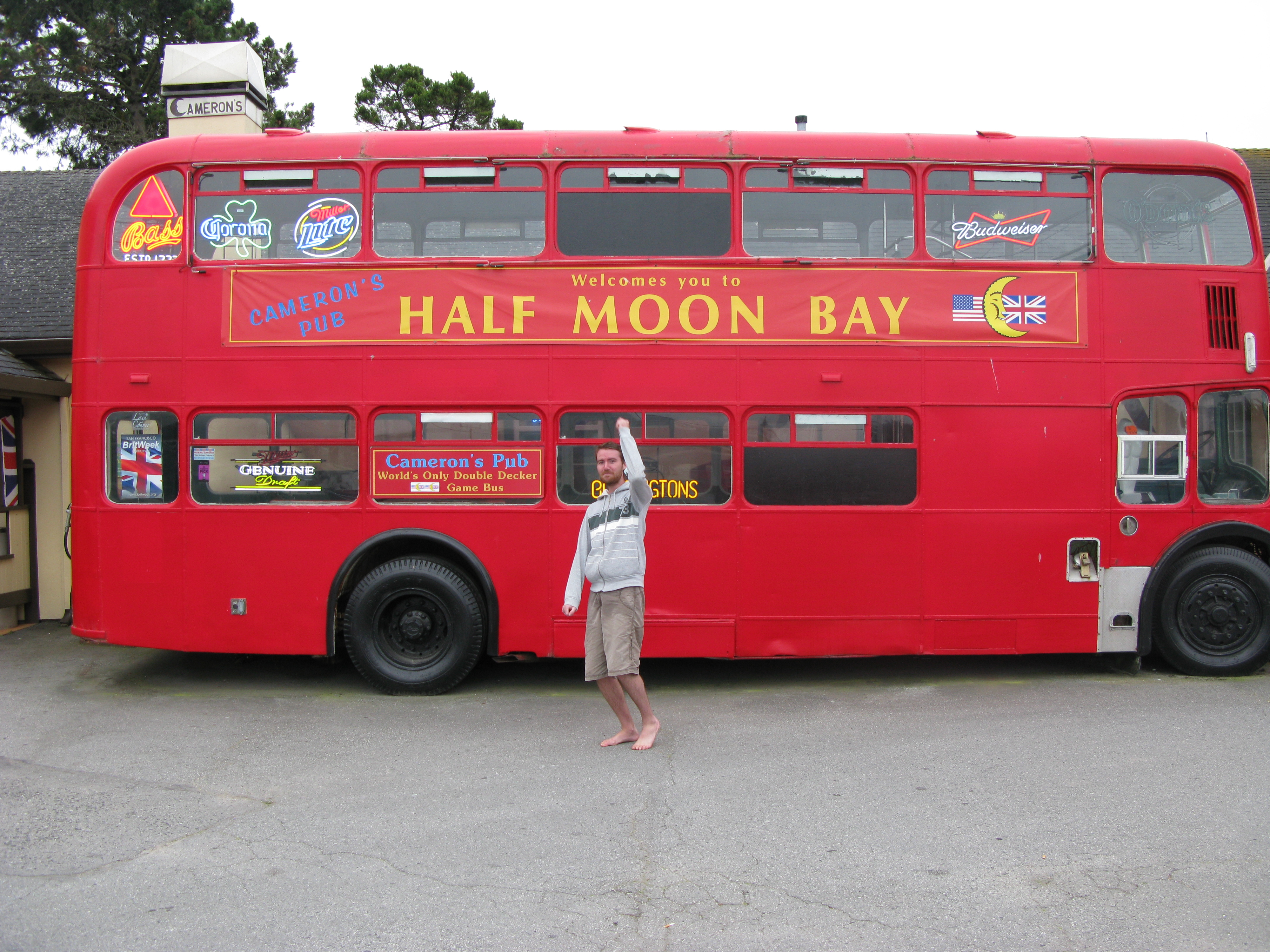 Im holding my invisible coat hanger to protect myself during the pending Birdemic.